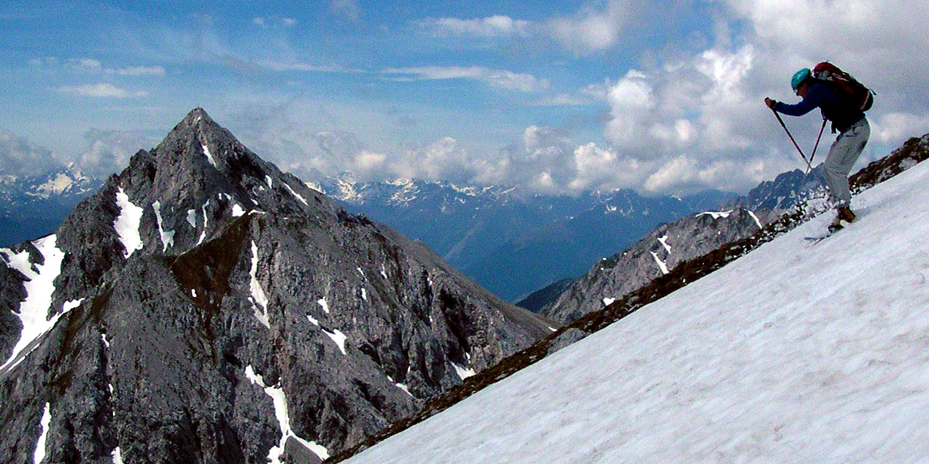 Firngleiten Stempeljochspitze Tyrol Austria